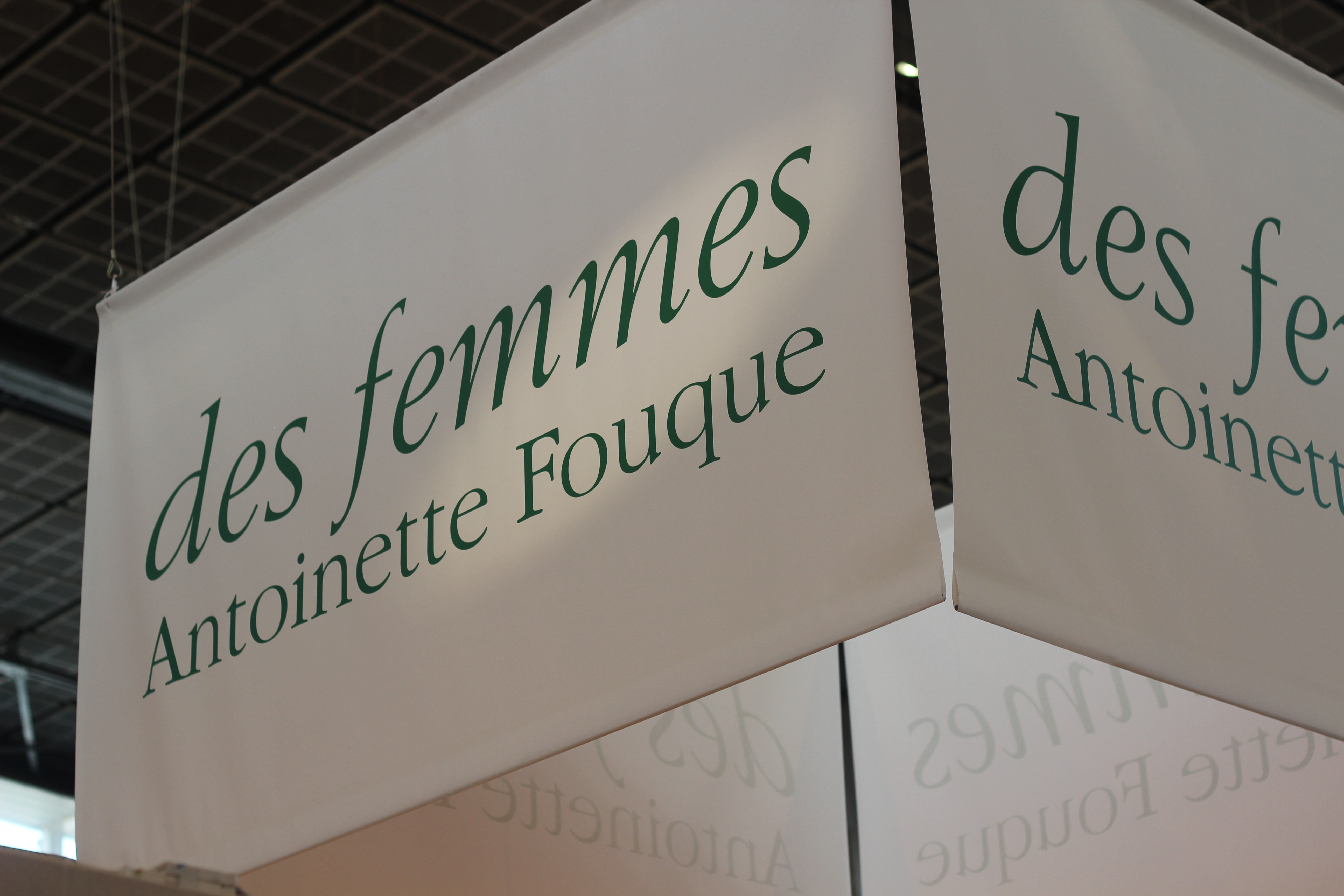 2015 Paris Book Fair, from 20 to 23 March 2015, Paris expo Porte de Versailles.